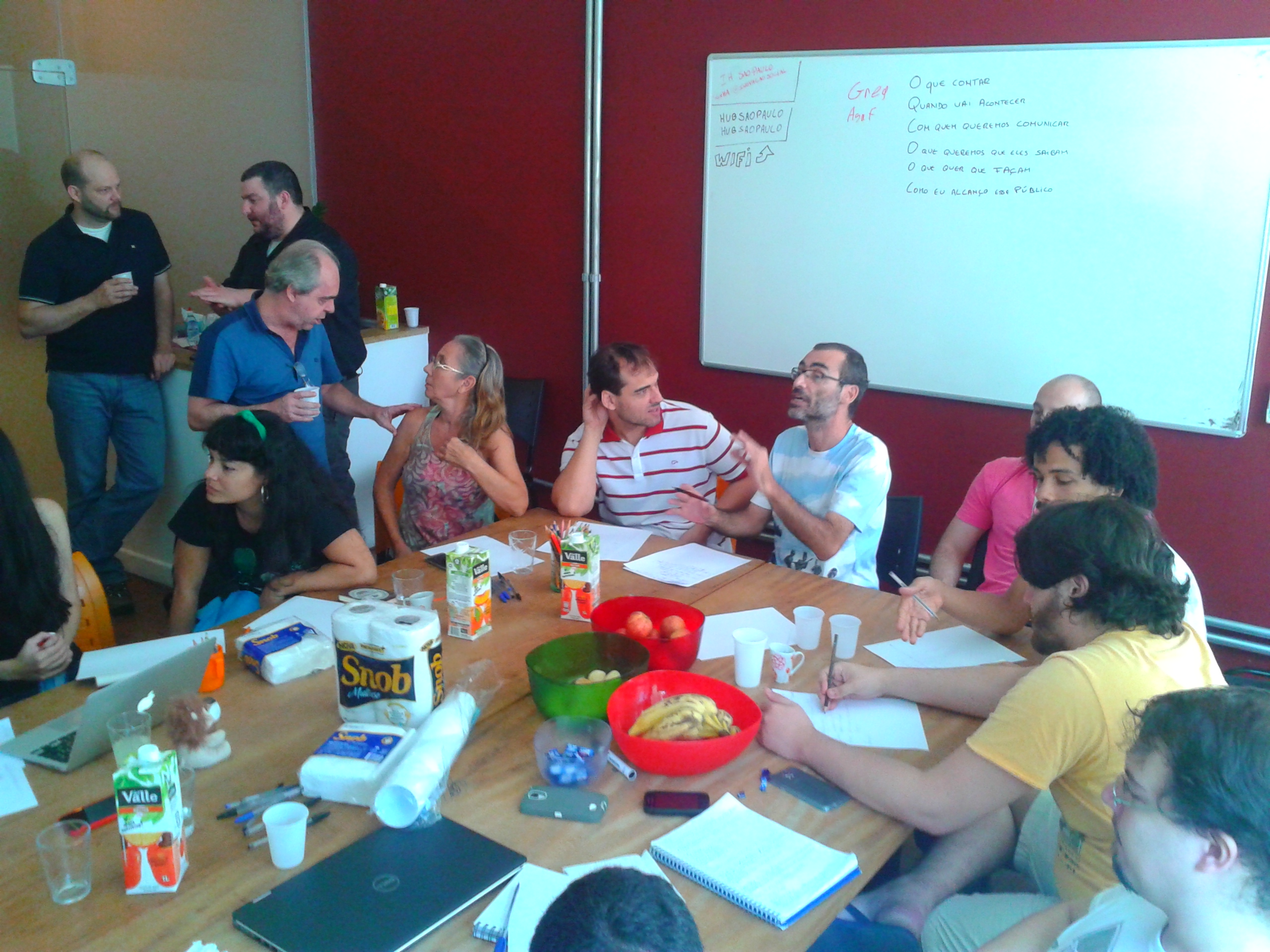 Community Capacity Development in Brazil. In-person training was held in São Paulo on the weekend April 9th-10th 2016, when a local, Portuguese-speaking journalist was consulted in advance of the training, regarding the media landscape in Brazil and particularities of expectations and norms of Brazilian media.